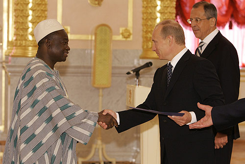 GRAND KREMLIN PALACE, MOSCOW. Ambassador of Burkina Faso presents his letter of credentials to the President.